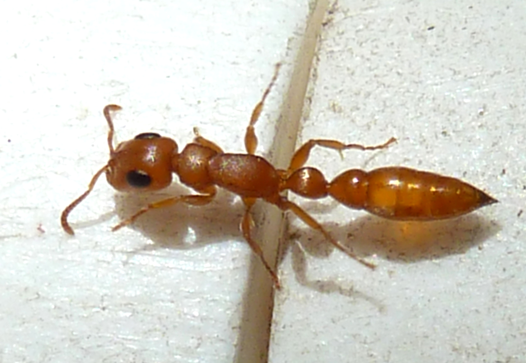 A Slender ant of the worker caste patrolling a garden table below the canopy of an Acacia caffra tree, Pretoria. Length about 6mm?